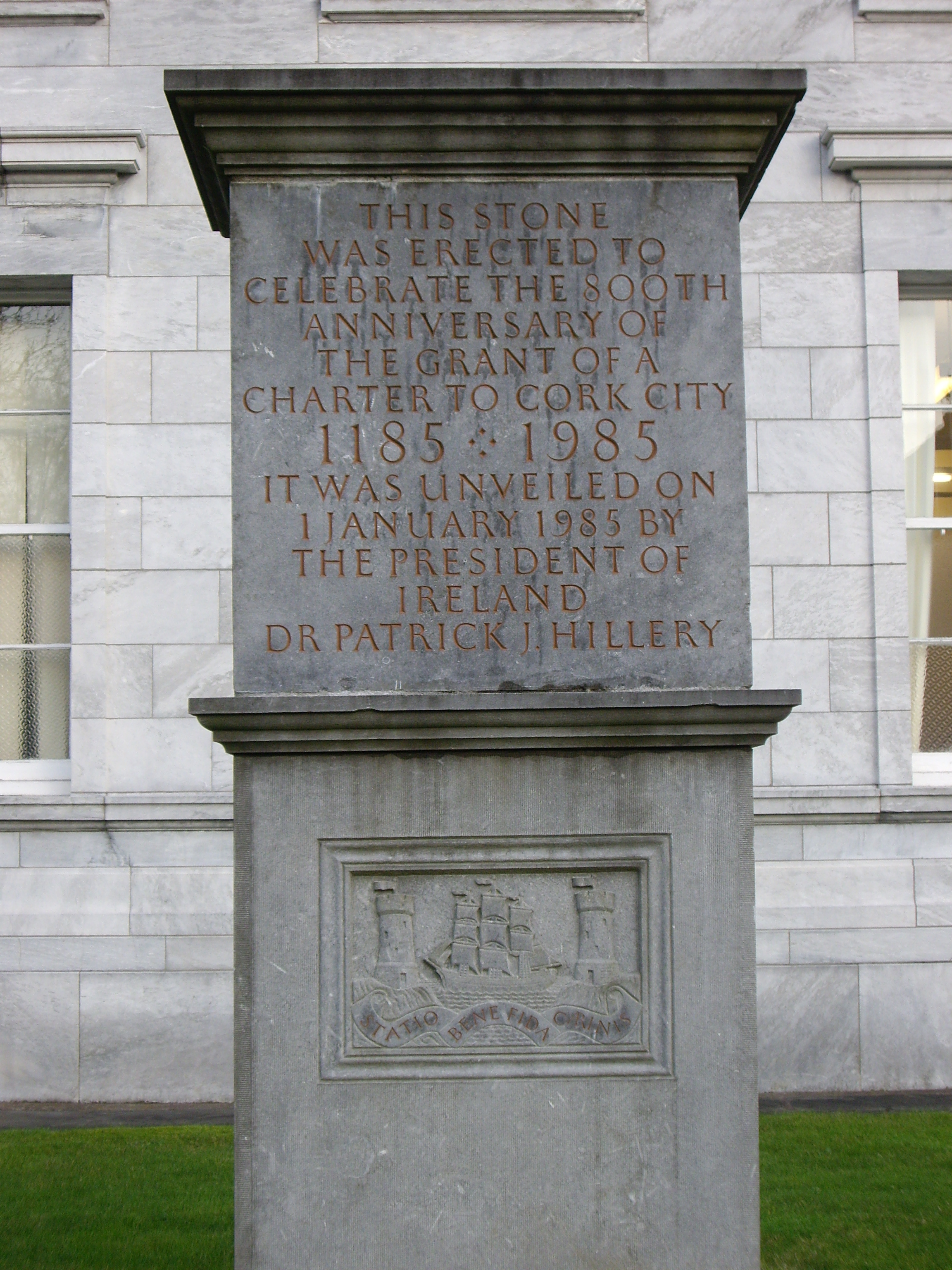 Memorial stone beside Cork City Hall unveiled by Patrick Hillery, President of Ireland, on New Year's Day 1985 at the beginning of Cork 800, a year of celebration for the 800th anniversary of the granting of the city charter by King John of England.